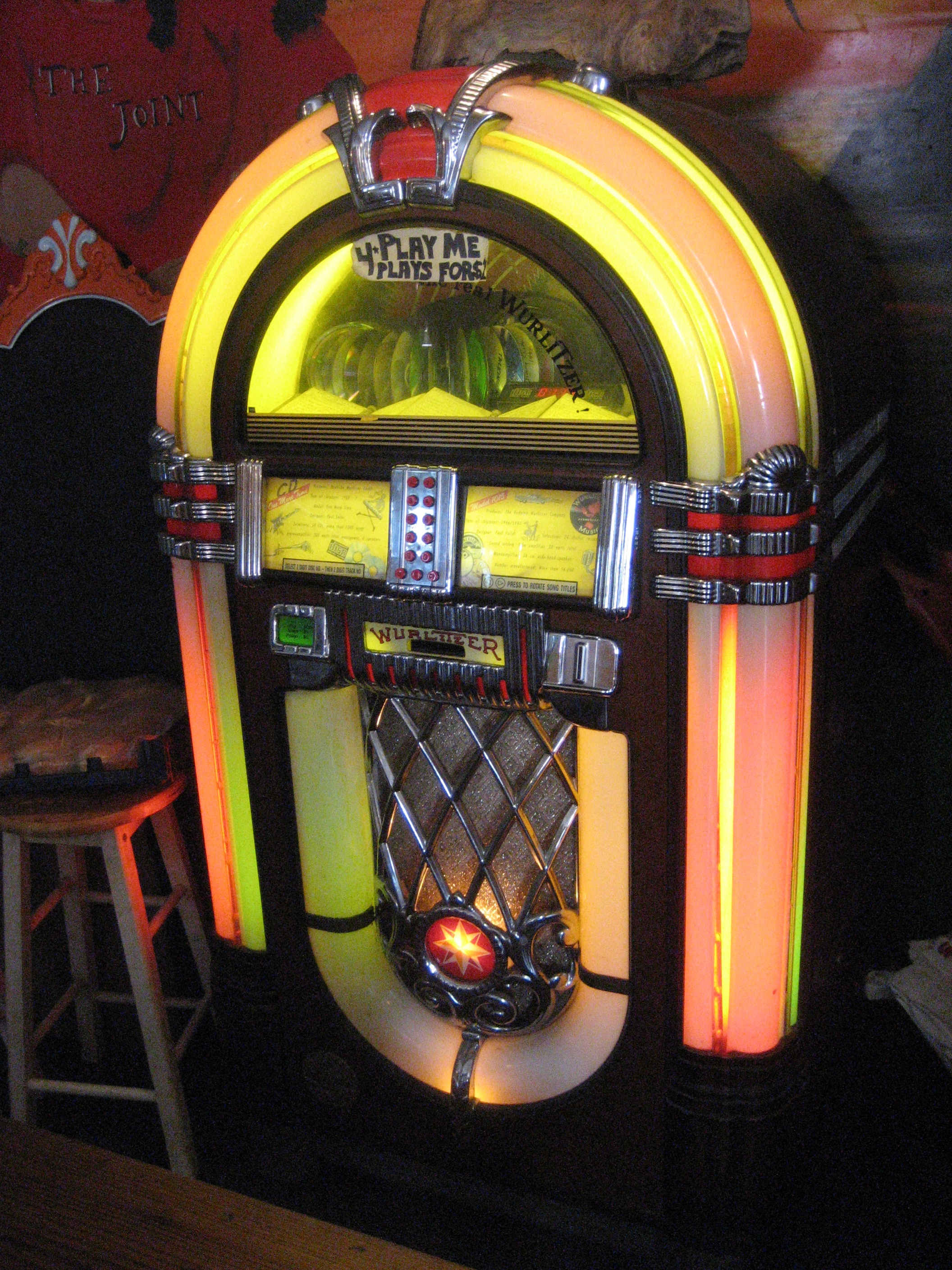 Jukebox in "The Joint" restaurant in the Bywater neighborhood, New Orleans. Looks to be an old 45rpm jukebox body remade to play CDs.